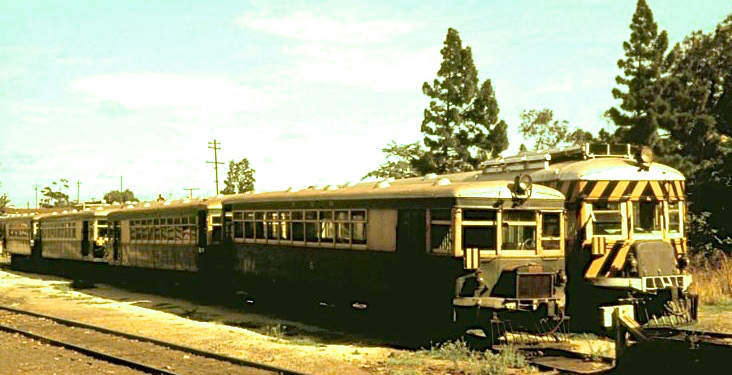 A group of diesel-mechanical Brill railcars (55 and 75 Classes) on the railcar tracks of Adelaide station, South Australian Railways, in 1962.